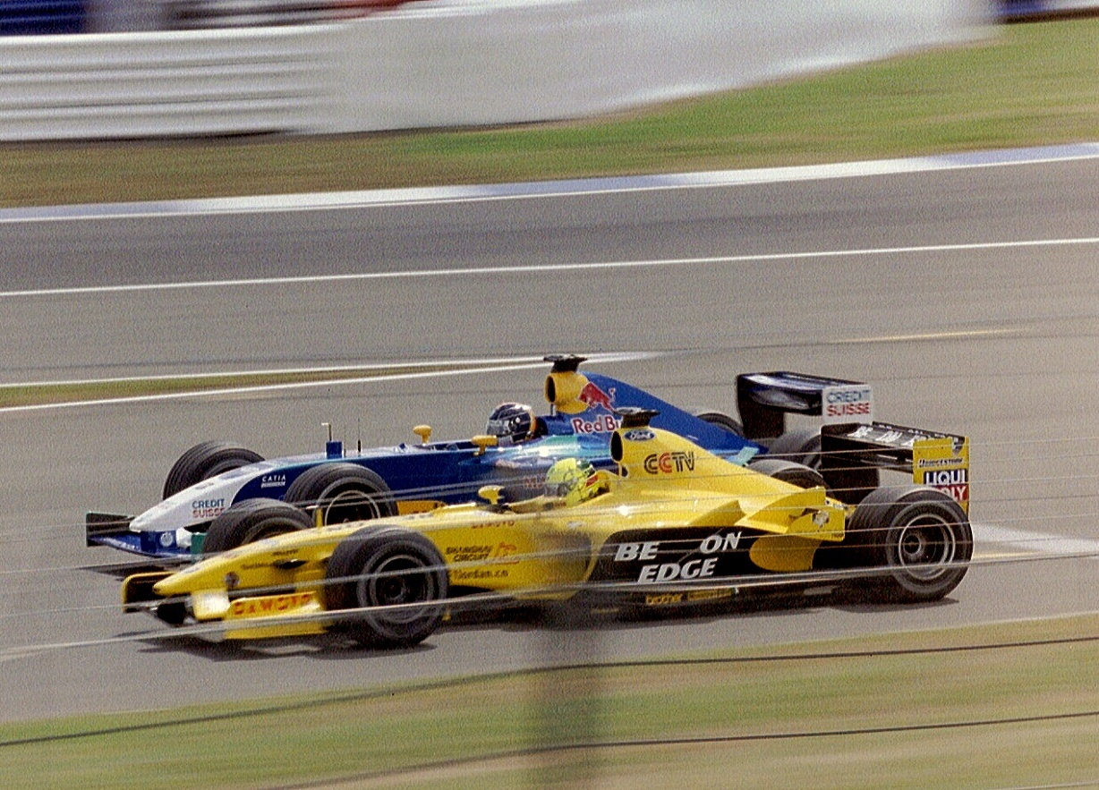 Heinz-Harald Frentzen, driving his Sauber Petronas, overtaking the Jordan Ford of Ralph Firman at the 2003 British Grand Prix.